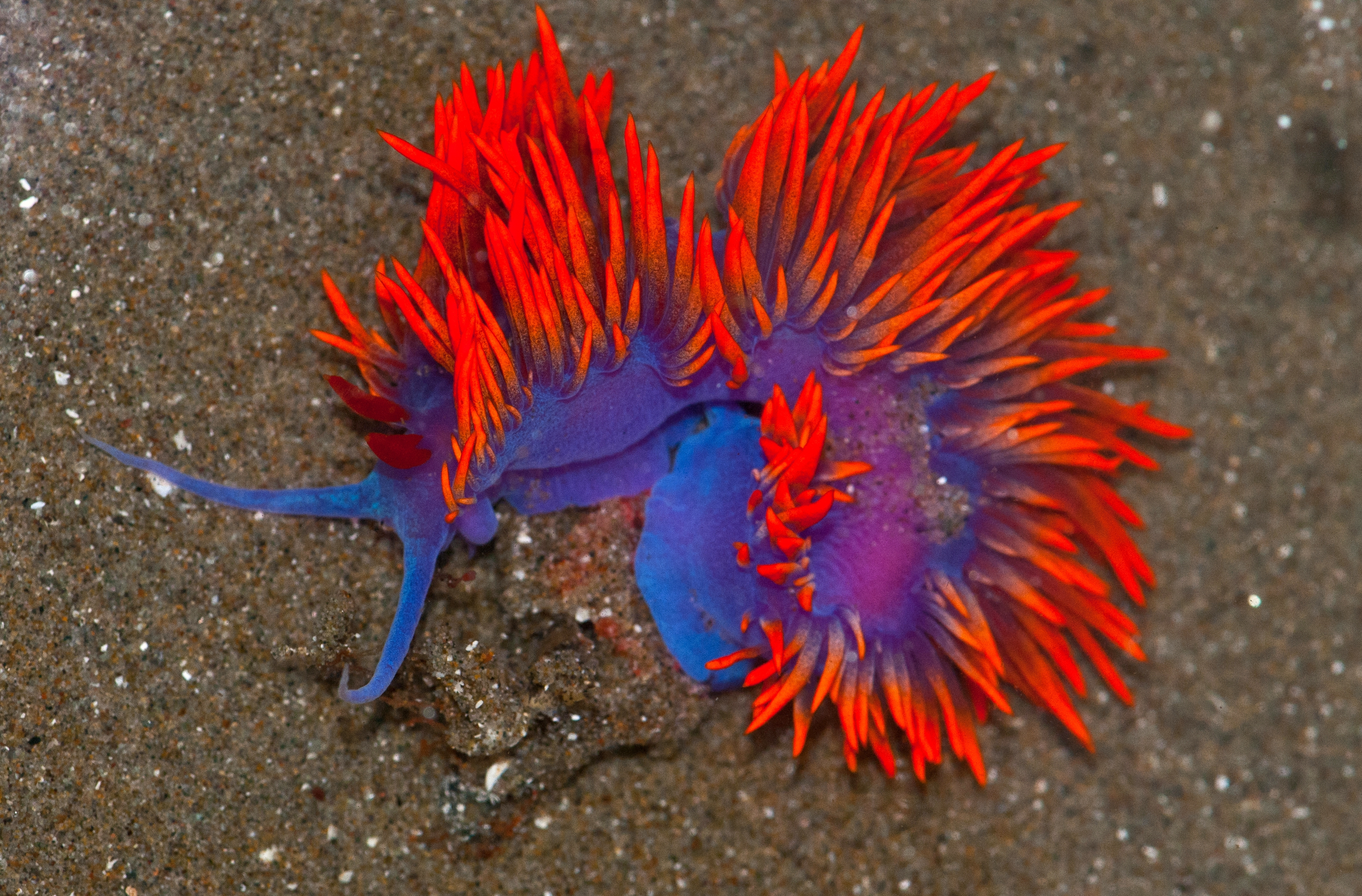 The bright colors warn predators of its bad taste,. It can swim by making a series of quick lateral, U-shaped bends to its body, first to one side, then to the other, as seen here. It feeds on hydroids. I wanted it to straighten out, but that is not its MO.